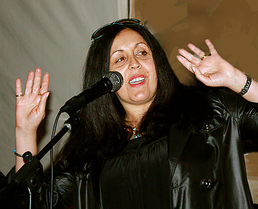 Poly Styrene